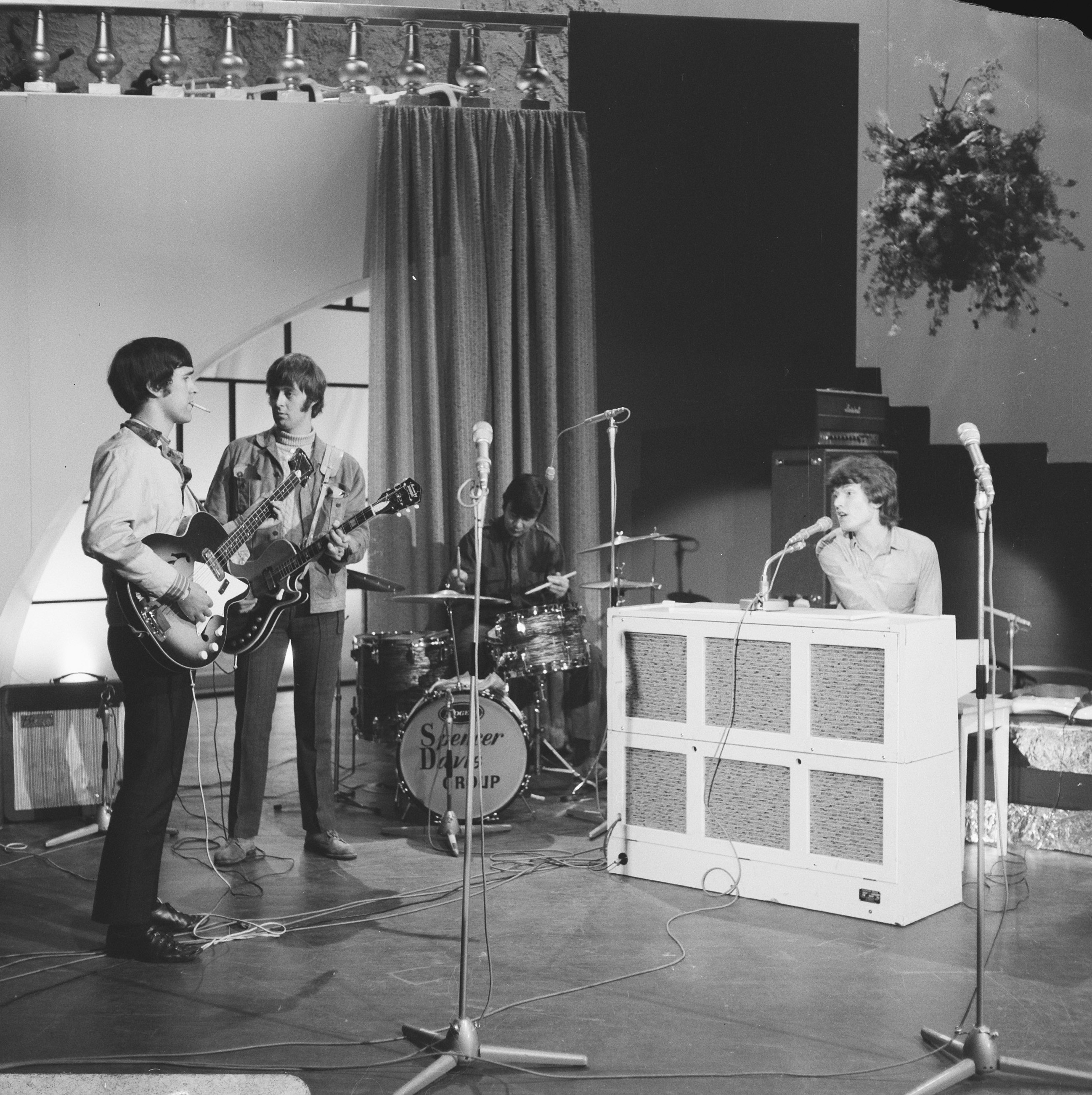 Rehearsal of The Spencer Davis Group, before performing at the Grand Gala du Disque, Concertgebouw Amsterdam, 30 Sept. 1966. From left to right: Muff Winwood (bass), Spencer Davis (guitar), Pete York (drums) & Steve Winwood (organ)